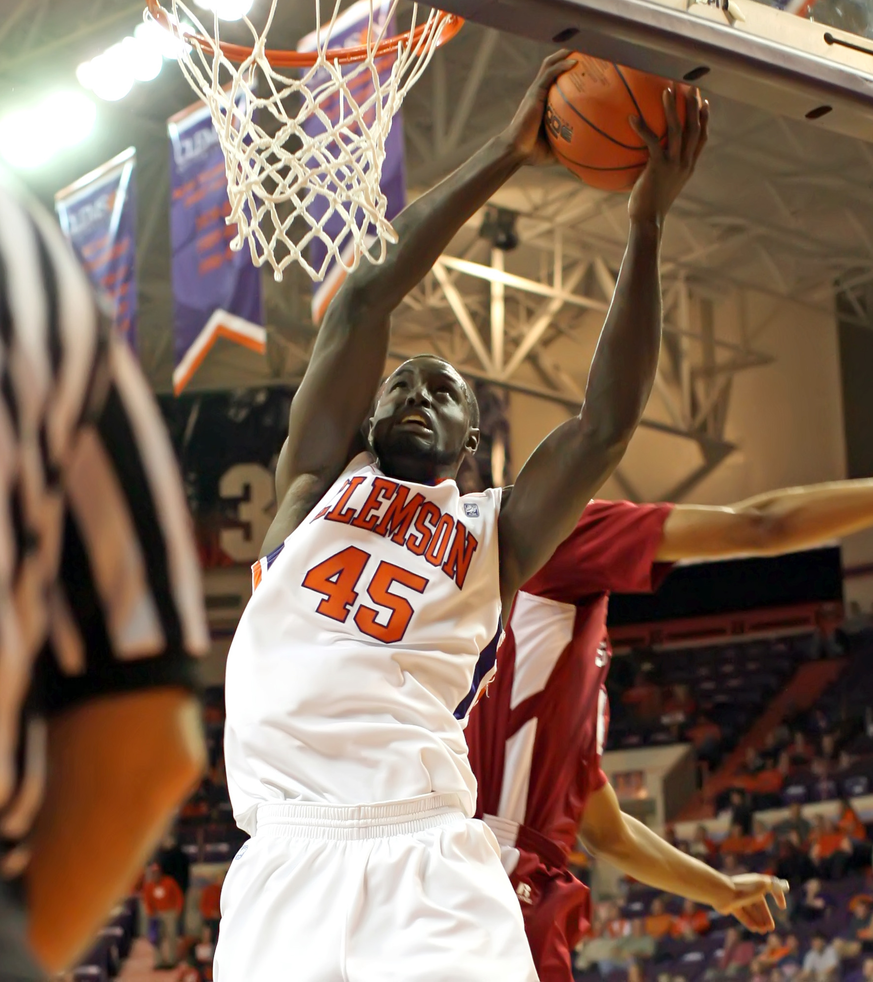 Grant dunking the ball